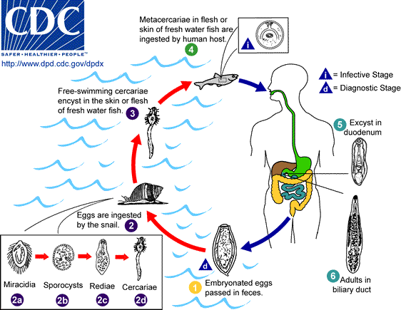 Clonorchiasis [Clonorchis sinensis] Causal Agent: The trematode Clonorchis sinensis (Chinese or oriental liver fluke). Life Cycle: Life cycle of Clonorchis sinensis Embryonated eggs are discharged in the biliary ducts and in the stool . Eggs are ingested by a suitable snail intermediate host ; there are more than 100 species of snails that can serve as intermediate hosts. Each egg releases a miracidia , which go through several developmental stages (sporocysts , rediae , and cercariae ). The cercariae are released from the snail and after a short period of free-swimming time in water, they come in contact and penetrate the flesh of freshwater fish, where they encyst as metacercariae . Infection of humans occurs by ingestion of undercooked, salted, pickled, or smoked freshwater fish . After ingestion, the metacercariae excyst in the duodenum and ascend the biliary tract through the ampulla of Vater . Maturation takes approximately 1 month. The adult flukes (measuring 10 to 25 mm by 3 to 5 mm) reside in small and medium sized biliary ducts. In addition to humans, carnivorous animals can serve as reservoir hosts. Geographic Distribution: Endemic areas are in Asia including Korea, China, Taiwan, and Vietnam. Clonorchiasis has been reported in non endemic areas (including the United States). In such cases, the infection is found in Asian immigrants, or following ingestion of imported, undercooked or pickled freshwater fish containing metacercariae.